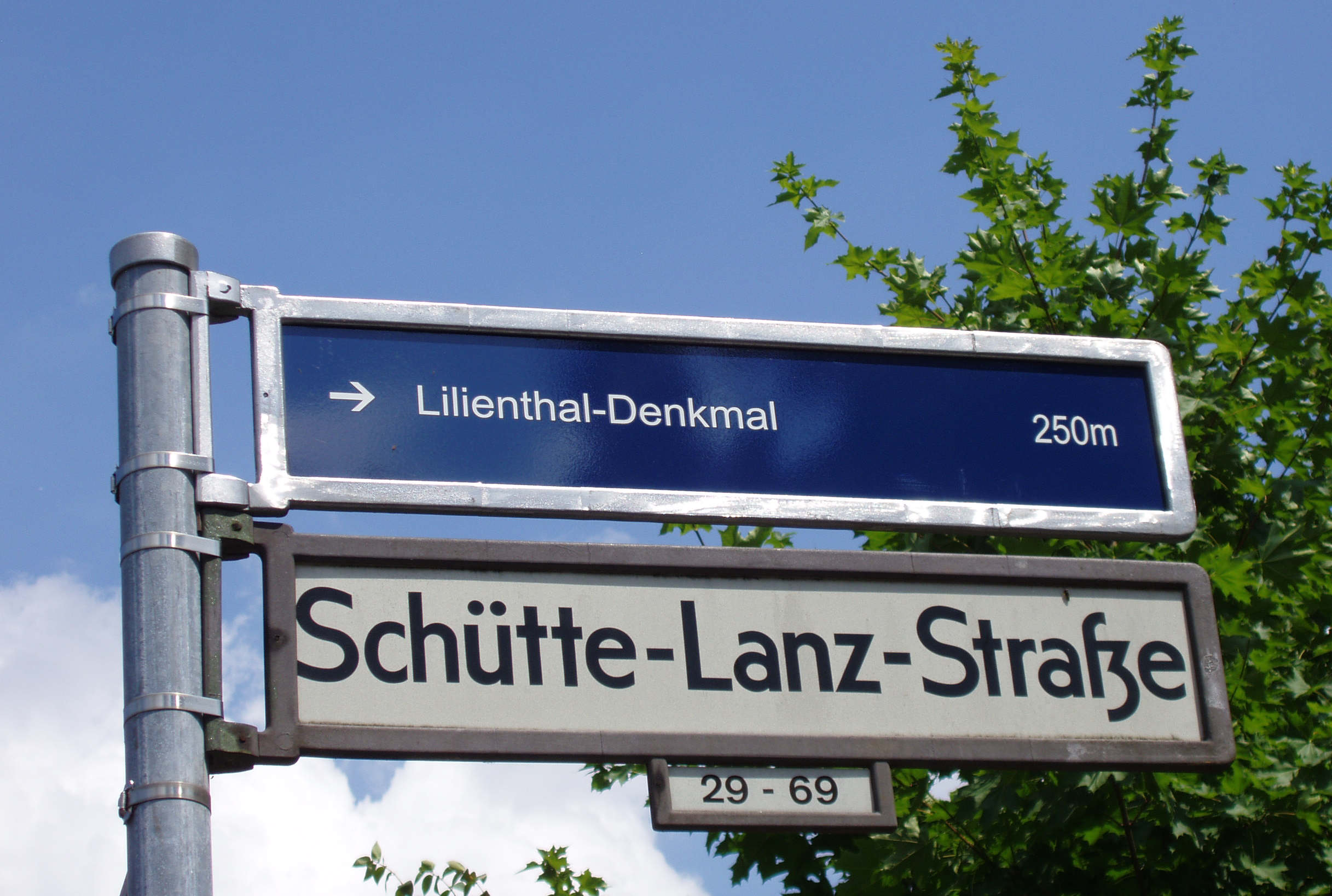 Street sign Schütte-Lanz-Straße in Berlin-Lichterfelde with signpost "Lilienthal-Monument"